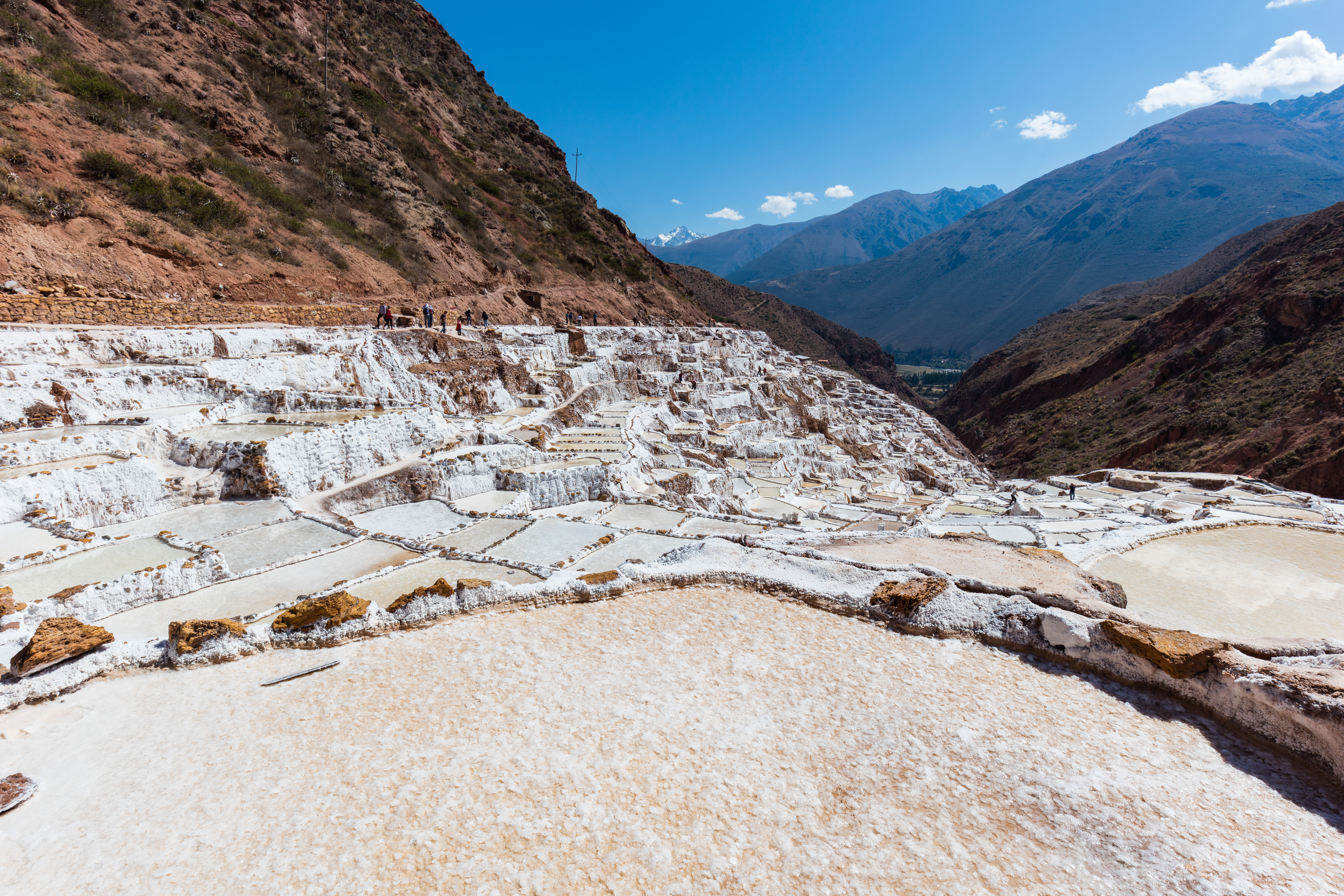 Salineras (salt evaporation ponds) in Maras, Peru